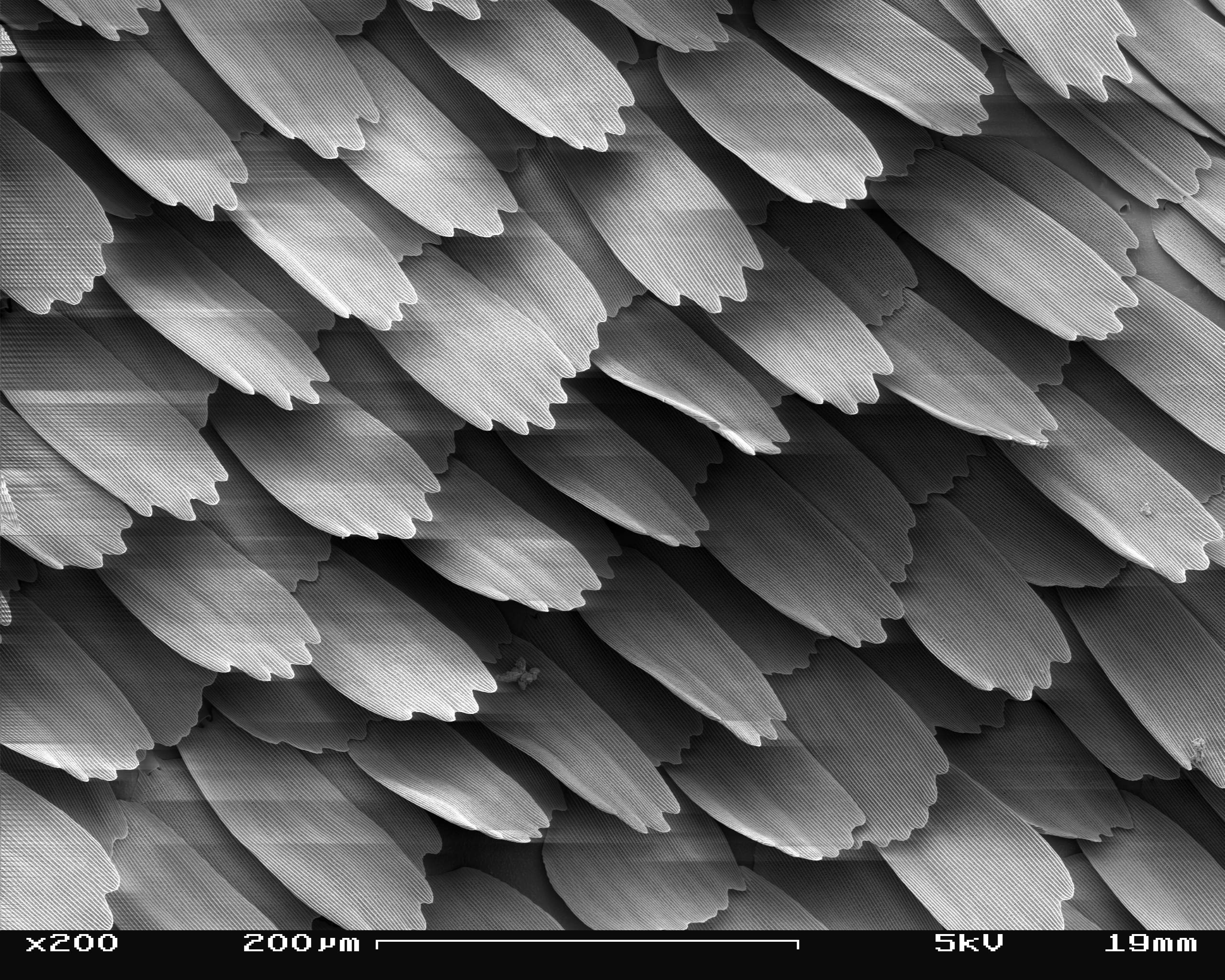 SEM image of a Peacock butterfly wing, slant view 2